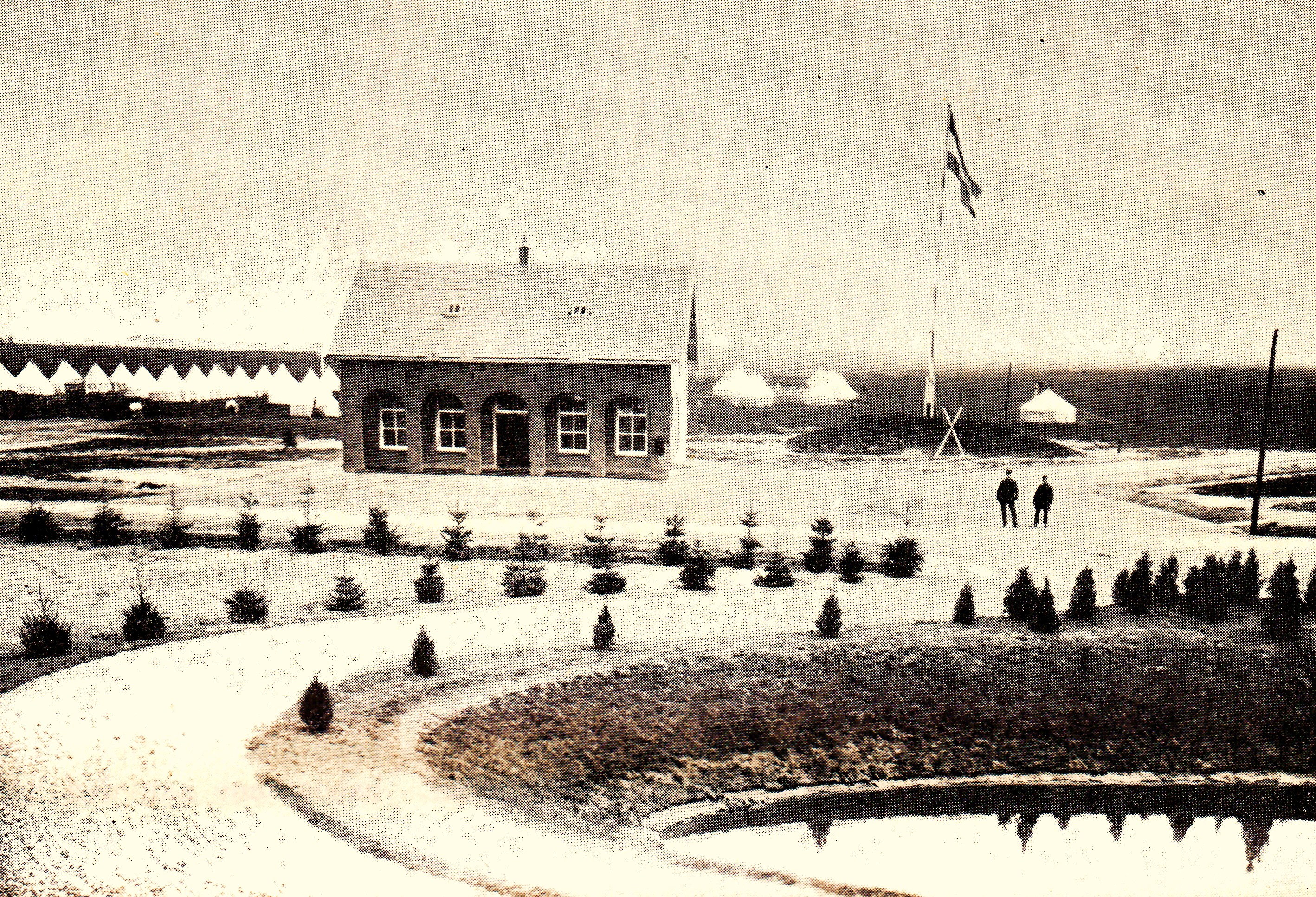 Legerplaats de Harskamp